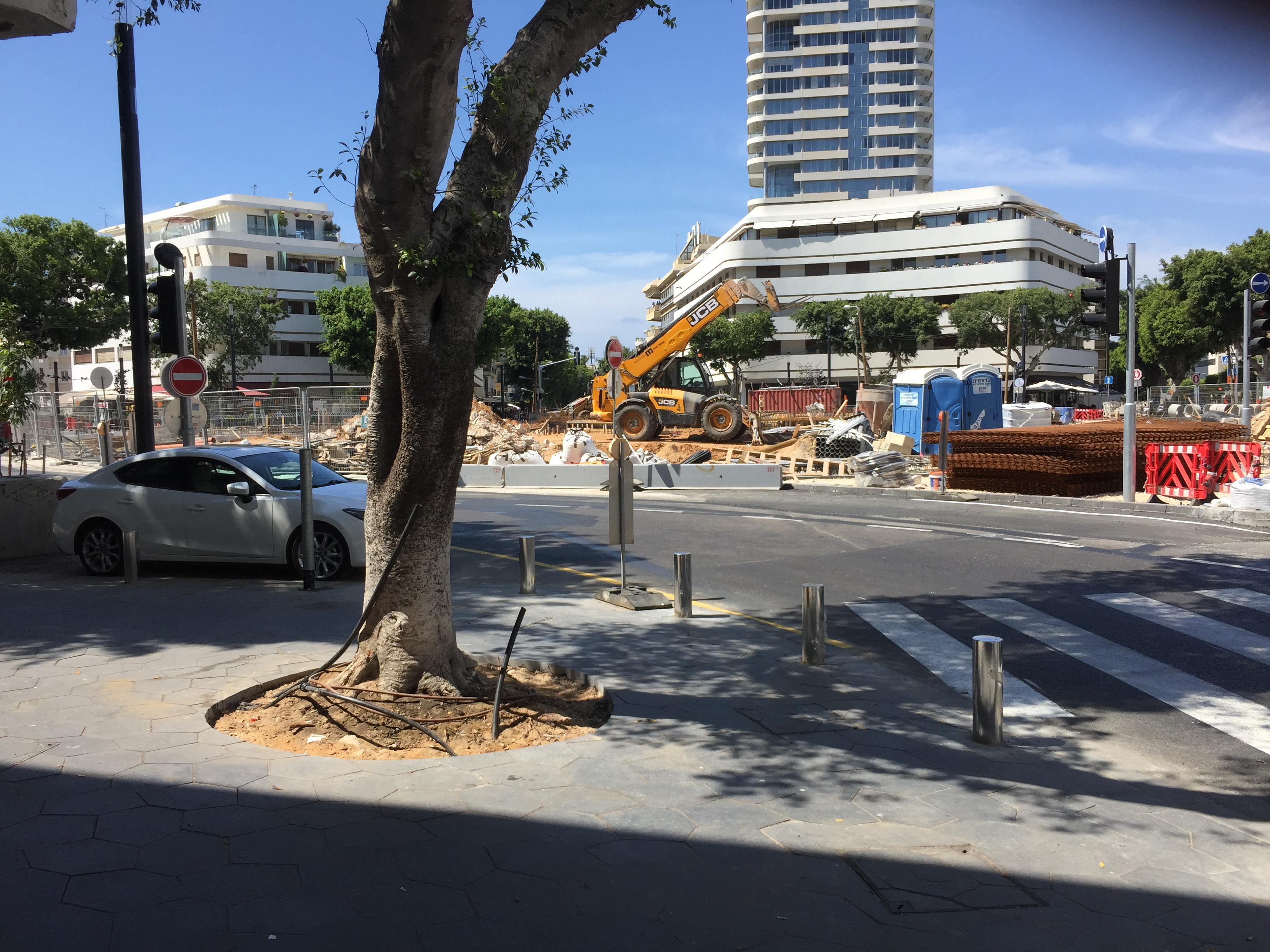 Dizengoff Square in 2018, looking from its southern end northwards.